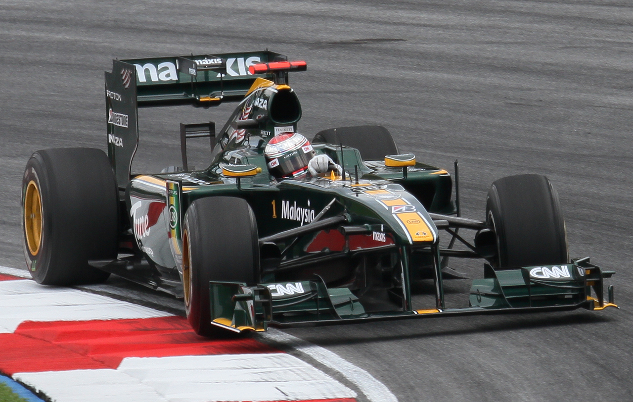 Formula One 2010 Rd.3 Malaysian GP: Jarno Trulli (Lotus) during Saturday 3rd Free Practice session.